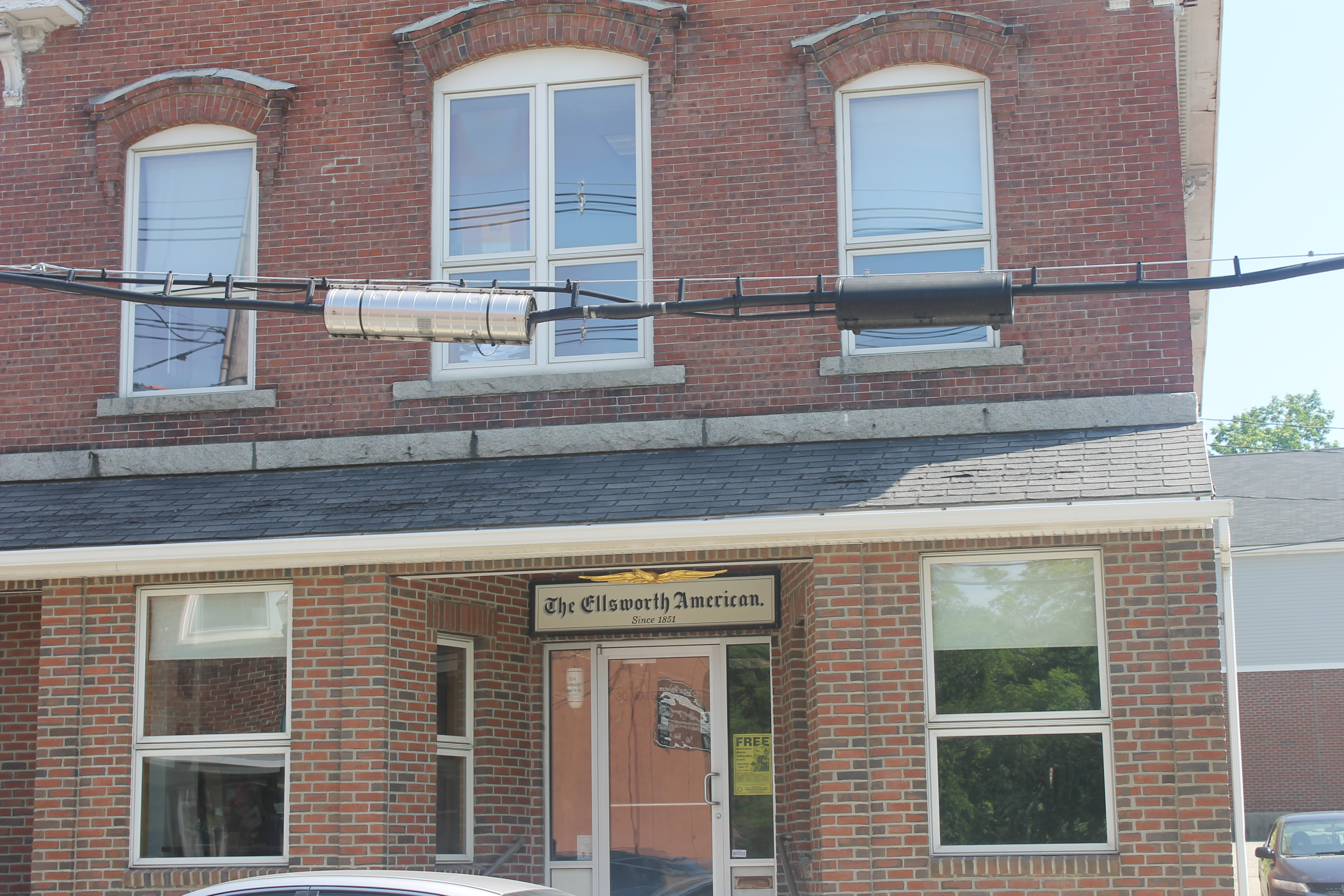 I took photo with Canon camera of Ellsworth American newspaper in Ellsworth, ME.